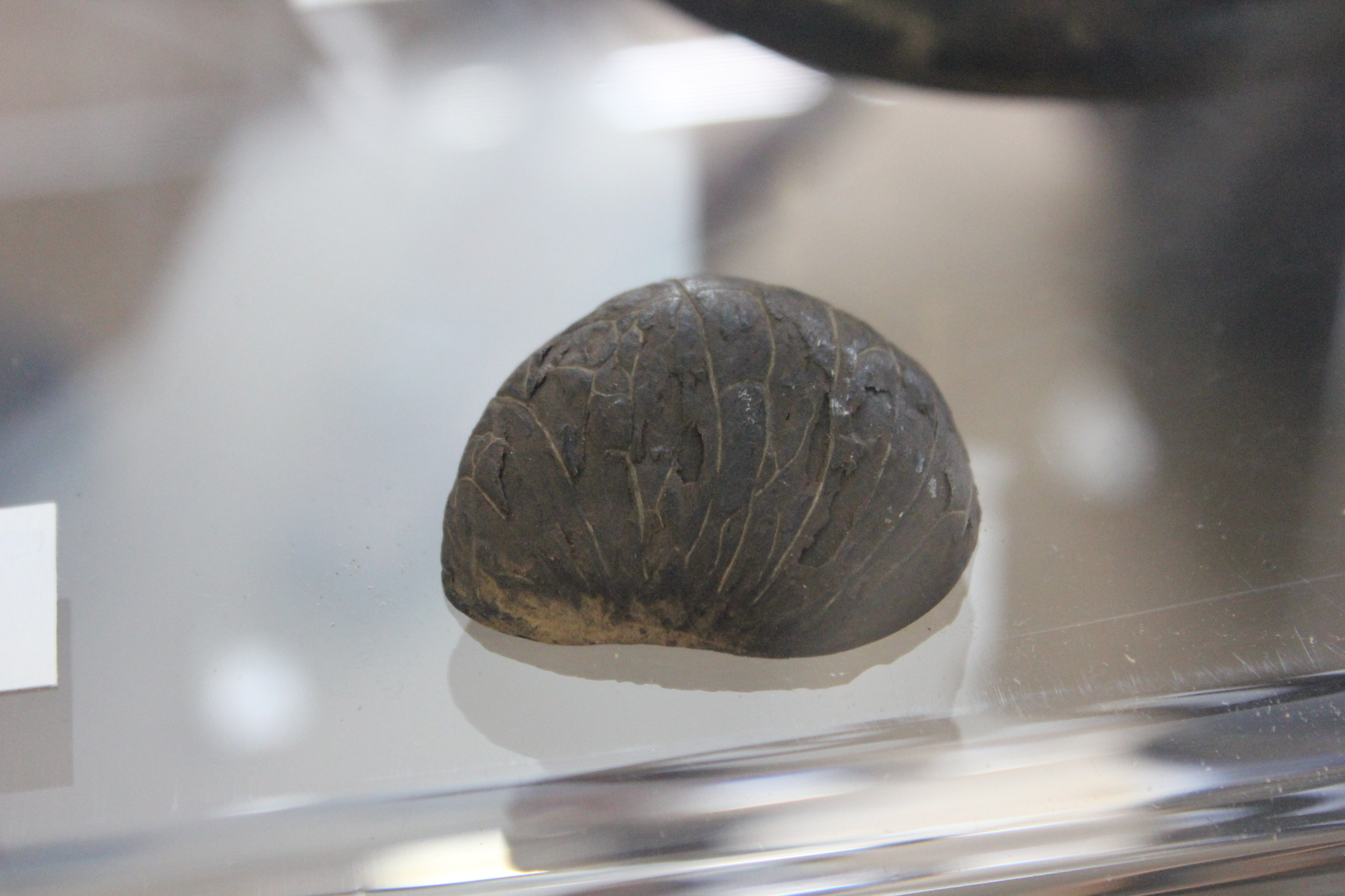 Elephant's toenail at Monmouth Museum, Wales. Part of the cabinet of curiosities